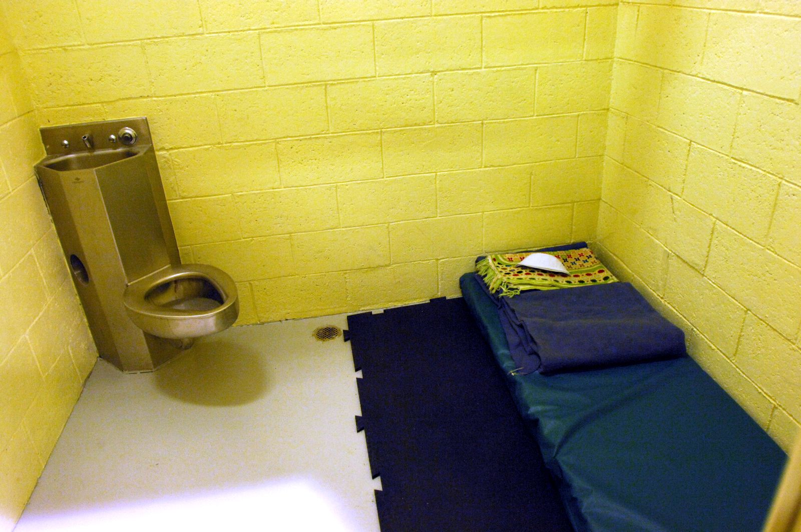 A cell inside the detention facility in the Parwan Province of Afghanistan.